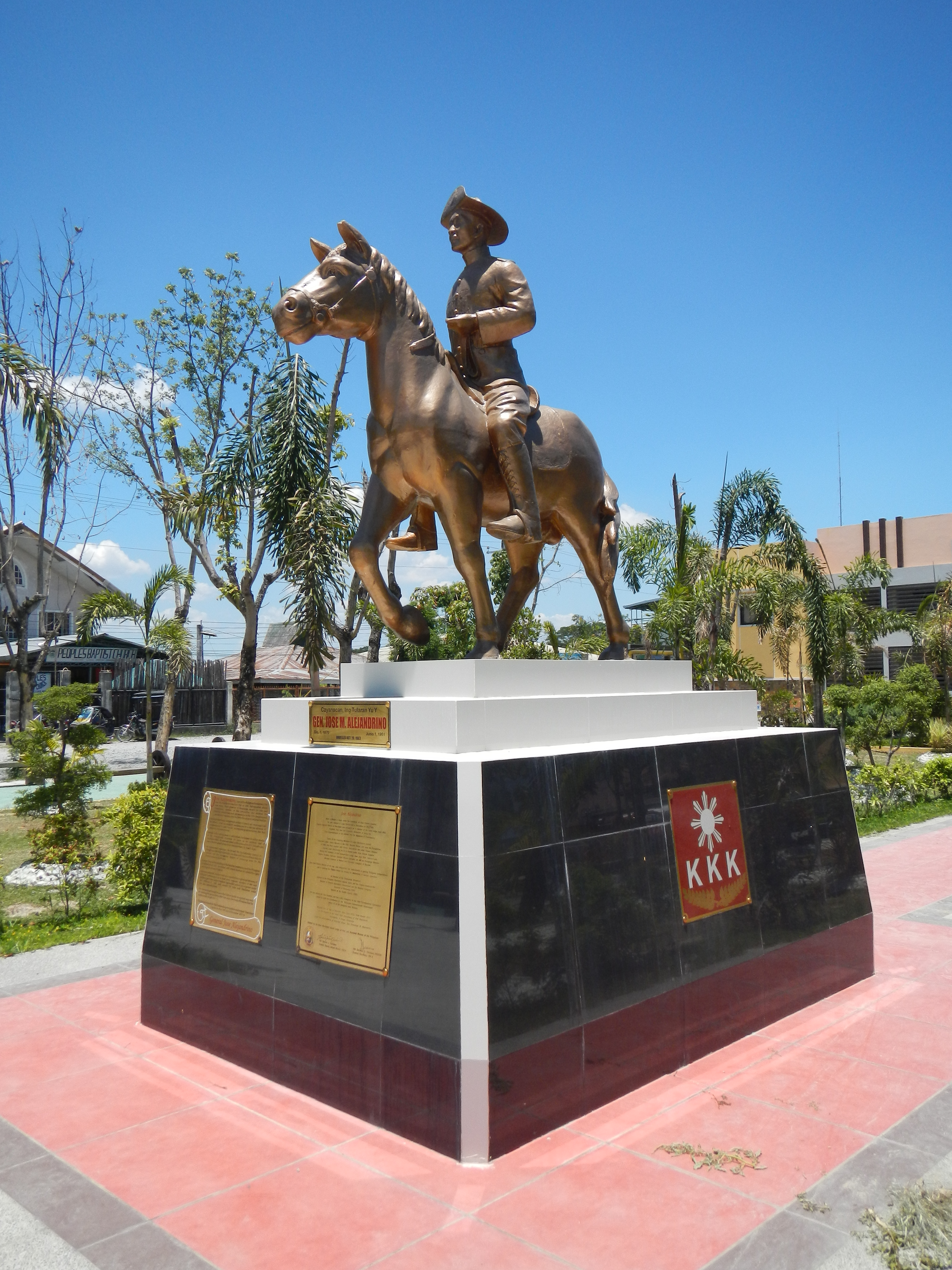 Barangay Plazang Luma, the New Municipal Hall with the statue of Jose Alejandrino along the Olongapo-San Fenando-Gapan National Road.